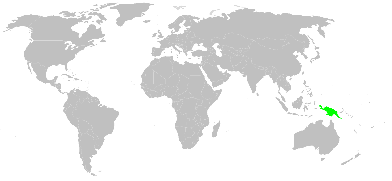 Known world distribution of Udvardya elegans (New Guinea).